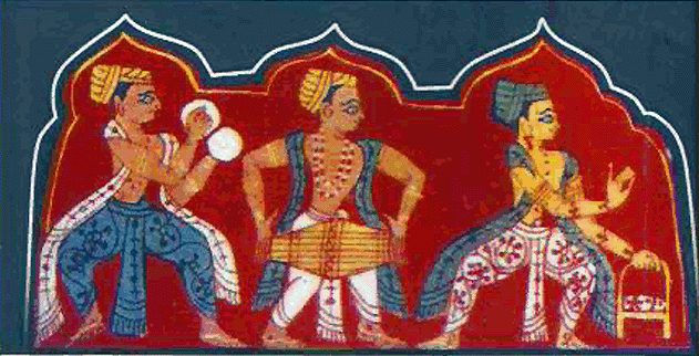 Citra Bhagavata illustration Satriya School, Assam, c. 1539 A.D.